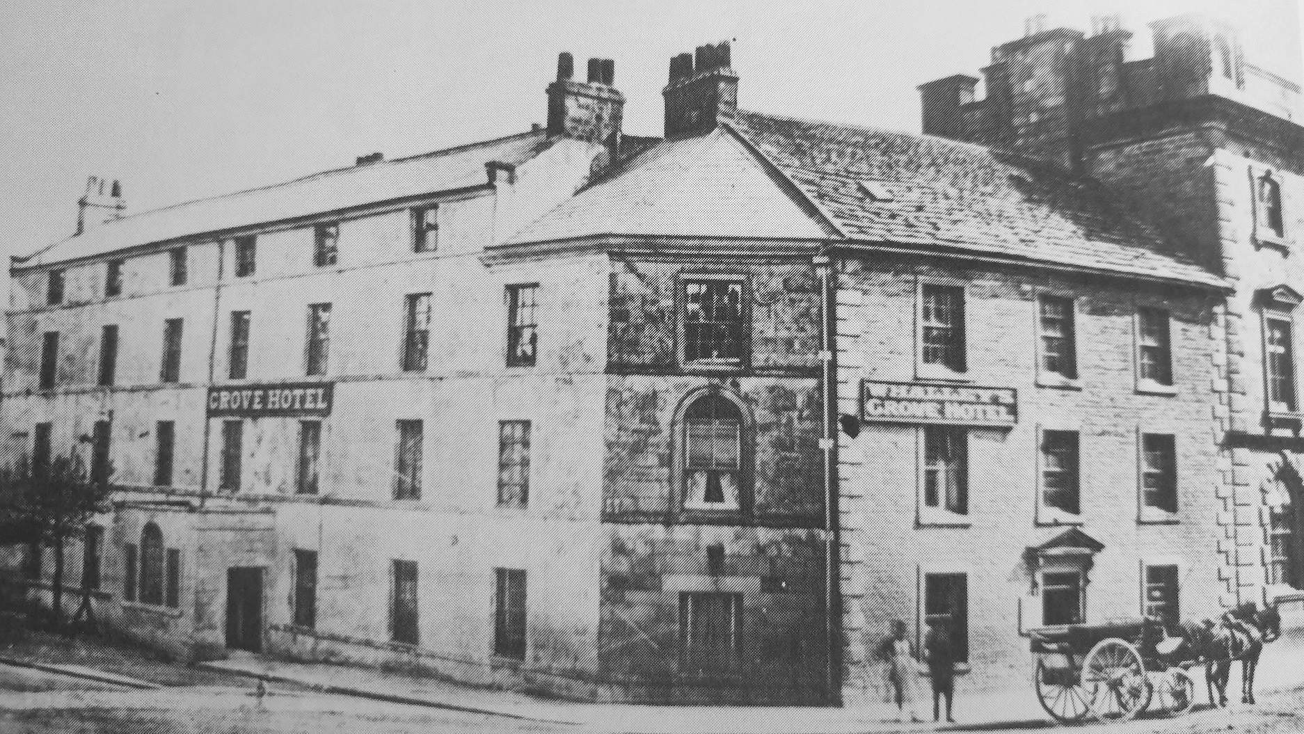 Grove Hotel in Buxton in the 1800s